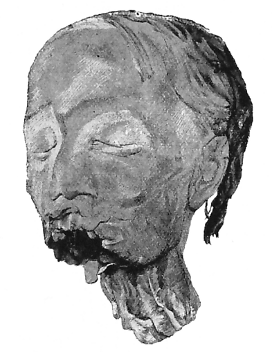 Head of a Mummy found inside the Pyramid of Merenre. It is unclear weather it is Merenre himself or a secondary burial from the 18th dynasty.